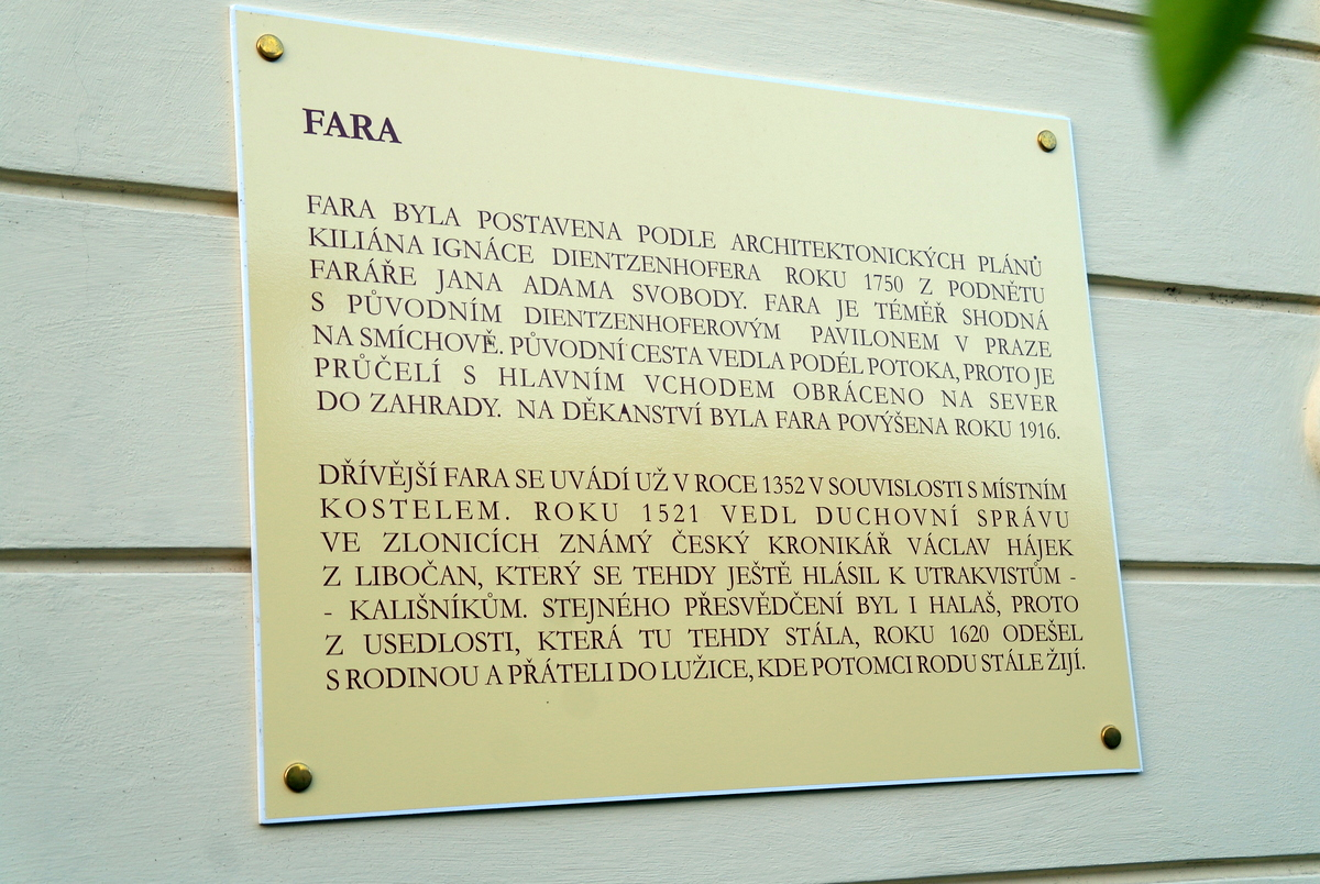 Rectory, Pejšova str. 47, Zlonice Information board.